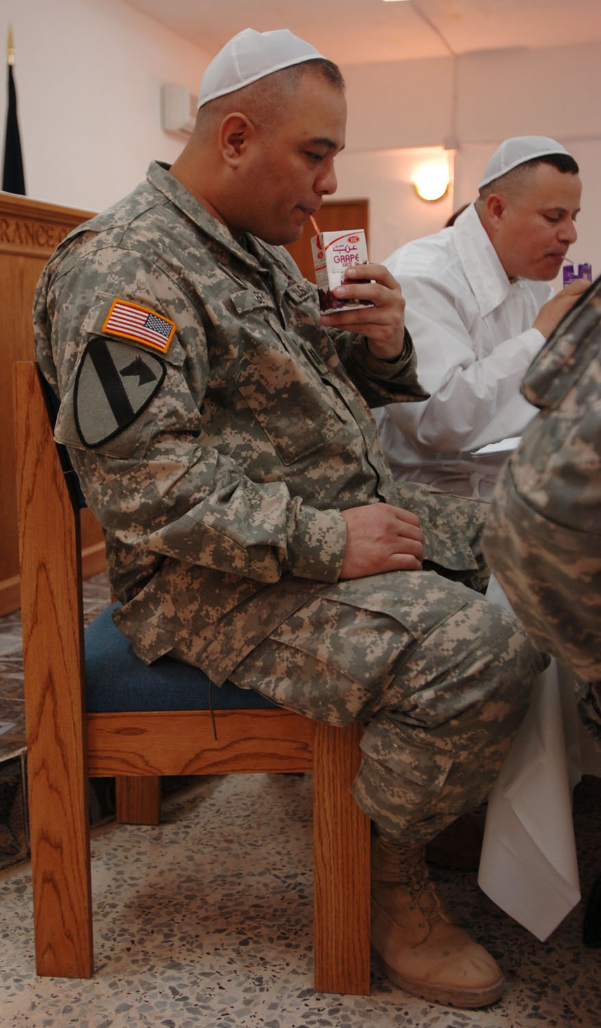 Chaplain (Capt.) Eric Bey, chaplain for 1-12 Combined Arms Battalion, 3rd Brigade Combat Team, 1st Cavalry Division, is one of many non Messianic Jews to partake in the Messianic Passover Seder held at Forward Operating Base Warhorse in Baqubah, Iraq, April 3. He drinks from a juice box instead of the traditional wine because he and his counterparts are stationed in Iraq in support of Operation Iraqi Freedom.